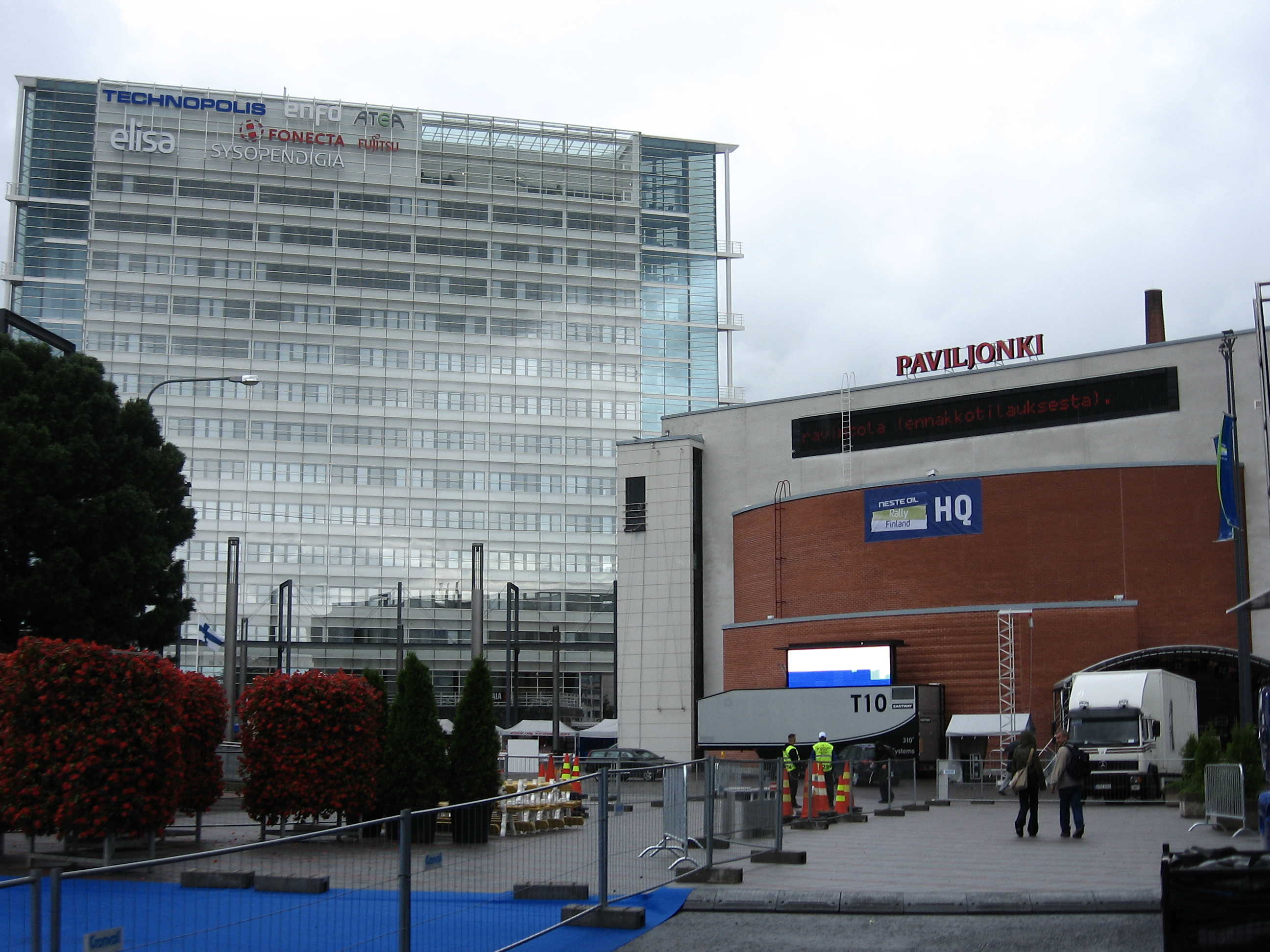 Preparations at the service park on wednesday during the 2007 Rally Finland.